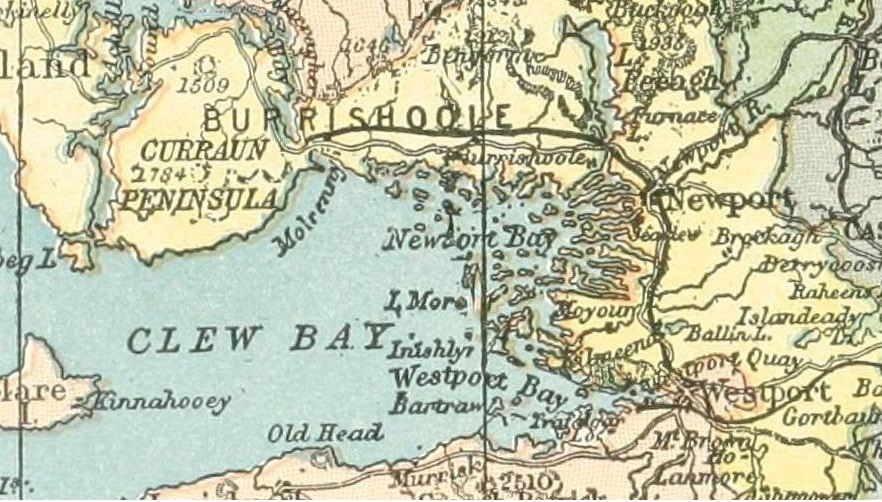 map of Clew Bay, Western Ireland around 1890